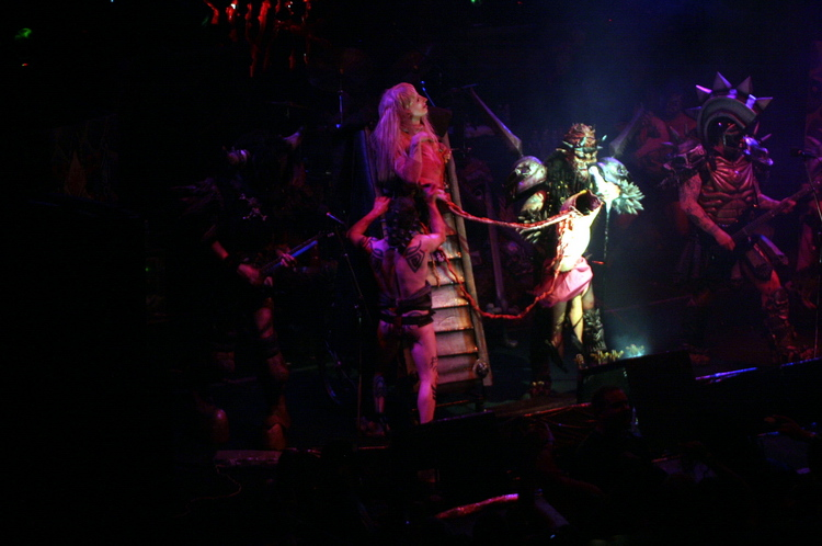 GWAR Concert - Disemboweling Paris Hilton